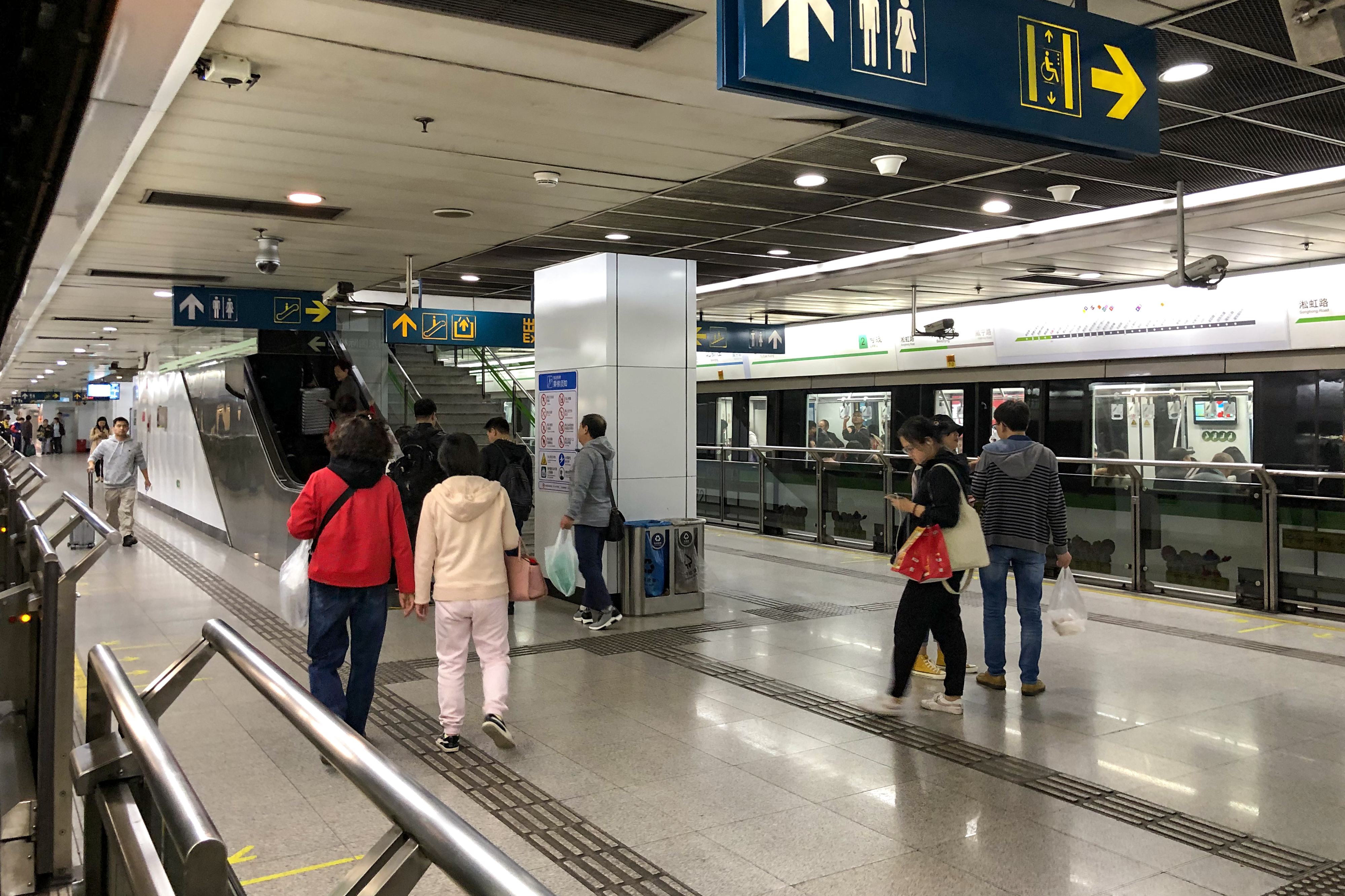 Through the whole Line 2...